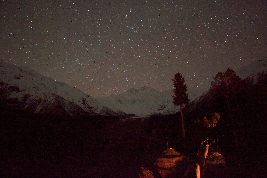 It was freezing weather at Fairy Meadows, but managed to get a couple decent shots.